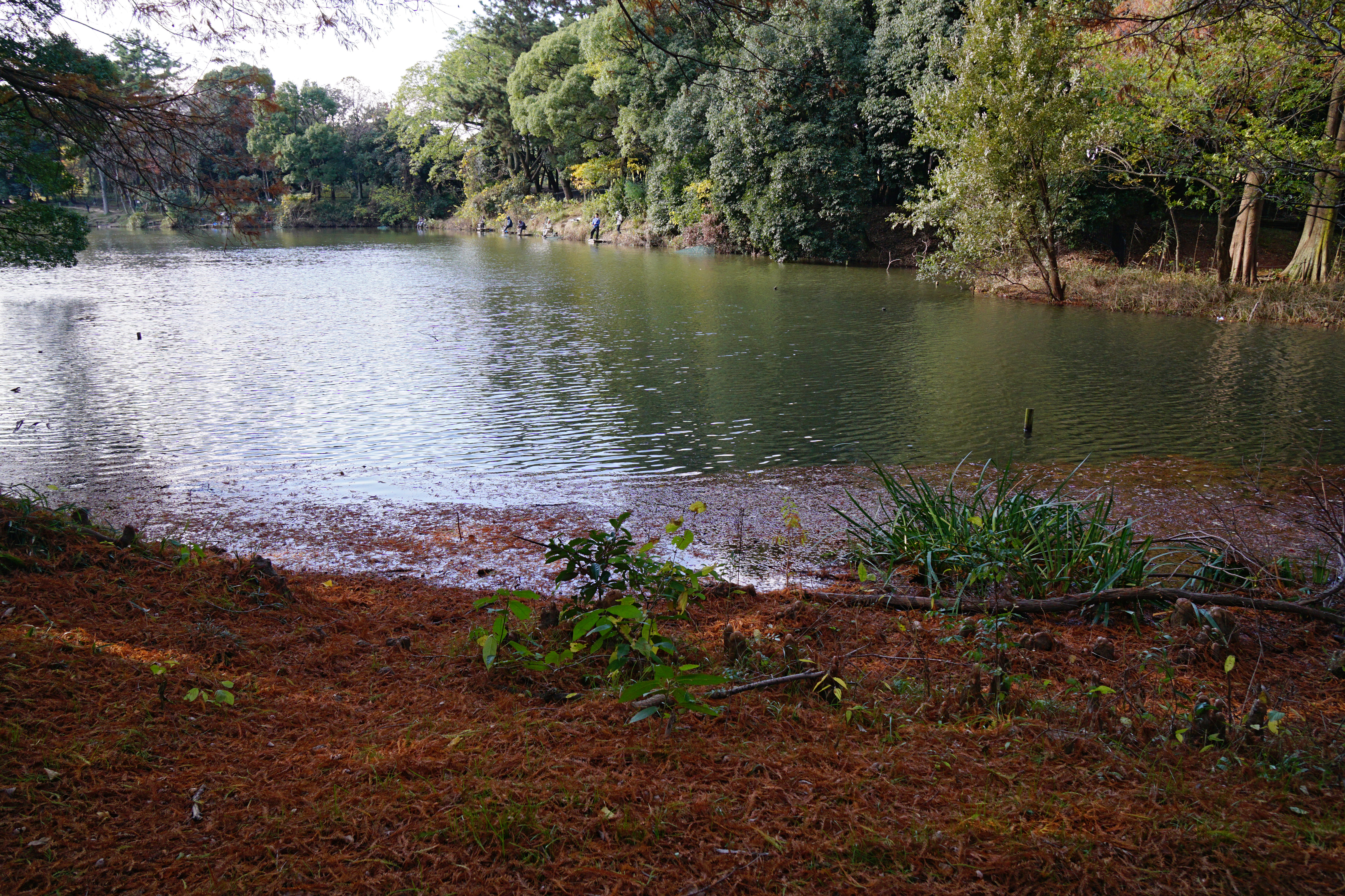 Hattori Ryokuchi in Osaka prefecture, Japan